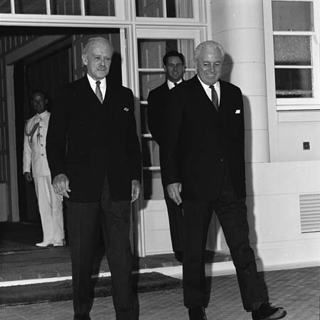 Harold Holt moments after being sworn in as the 17th Prime Minister of Australia